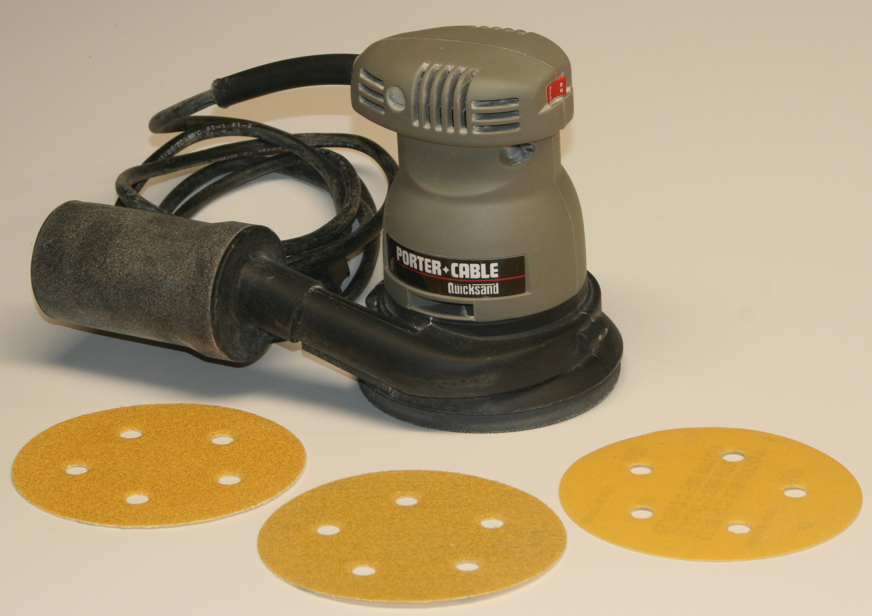 A Porter-Cable model 333 random orbital sander